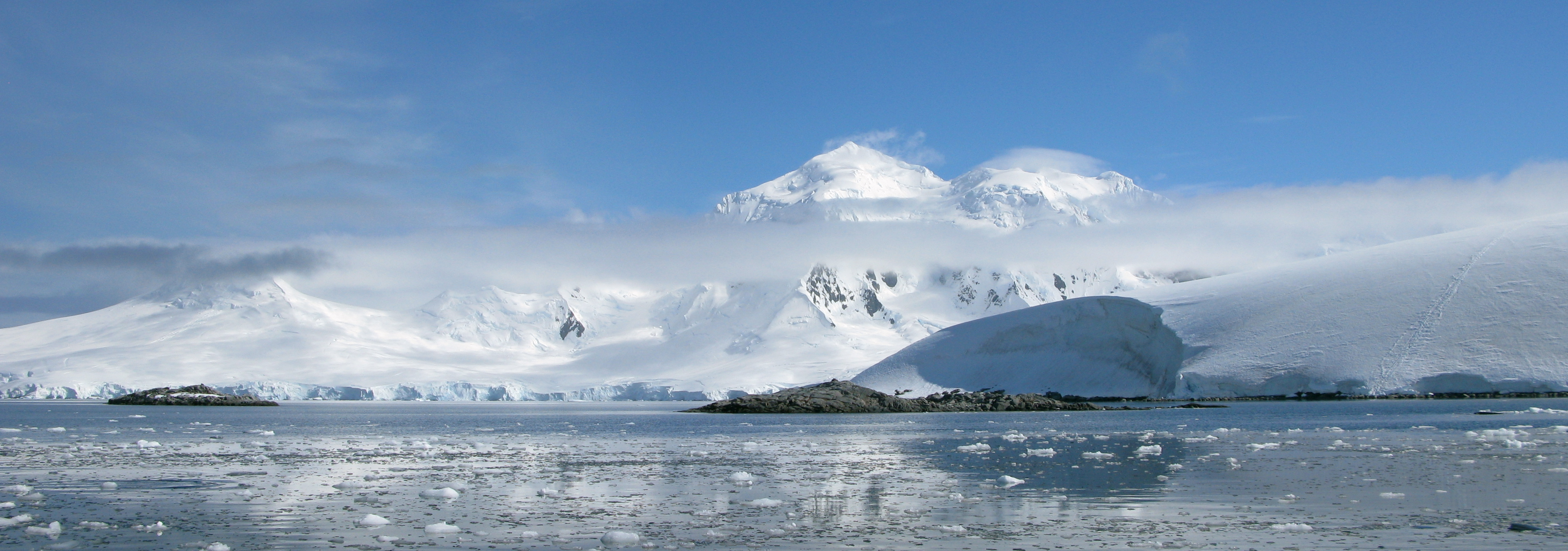 Doumer Island, is an island 4.5 miles (7 km) long and 2 miles (3.2 km) wide, in the Palmer Archipelago